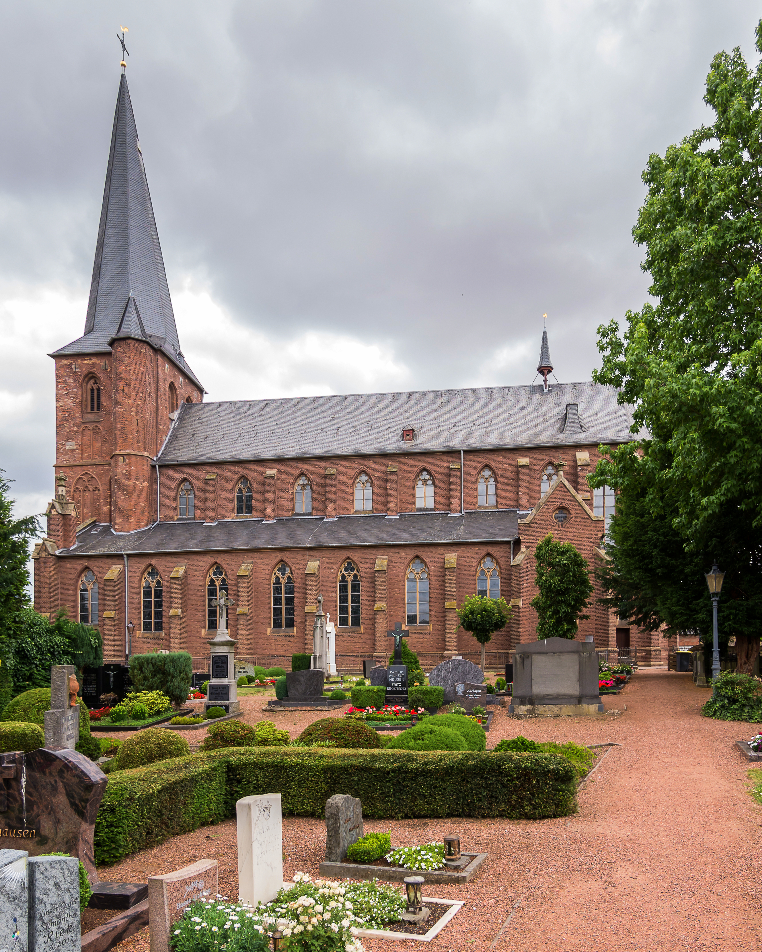 Kirchherten, Zaunstraße 58, Saint Martinus church